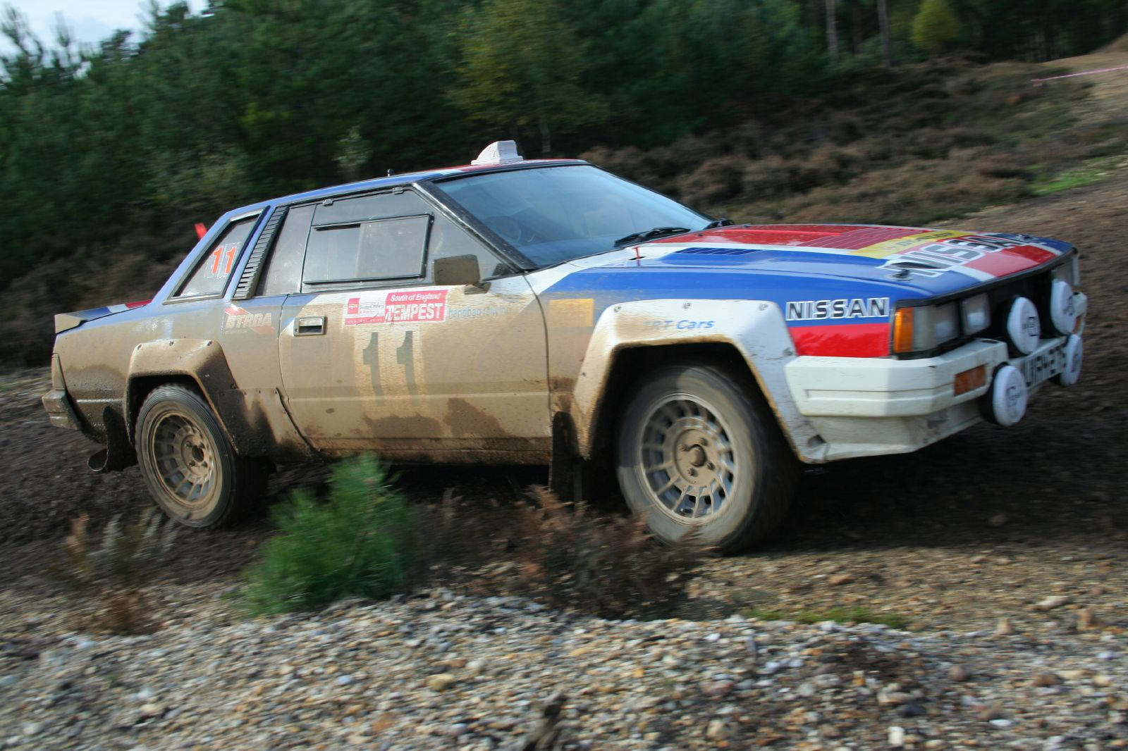 Nissan 240RS at the South of England Tempest Rally